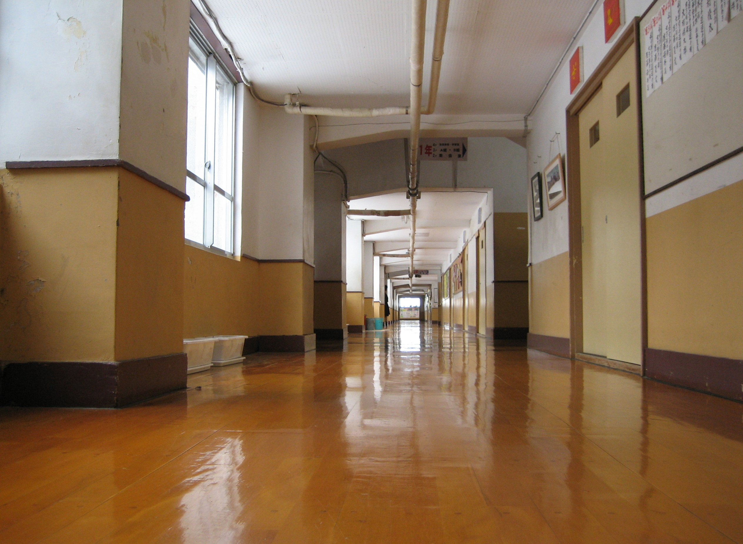 1st floor hallway at former Yashima Junior High School. Steam pipes can be seen at head level. Yashima, Yurihonjo, Akita, Japan.